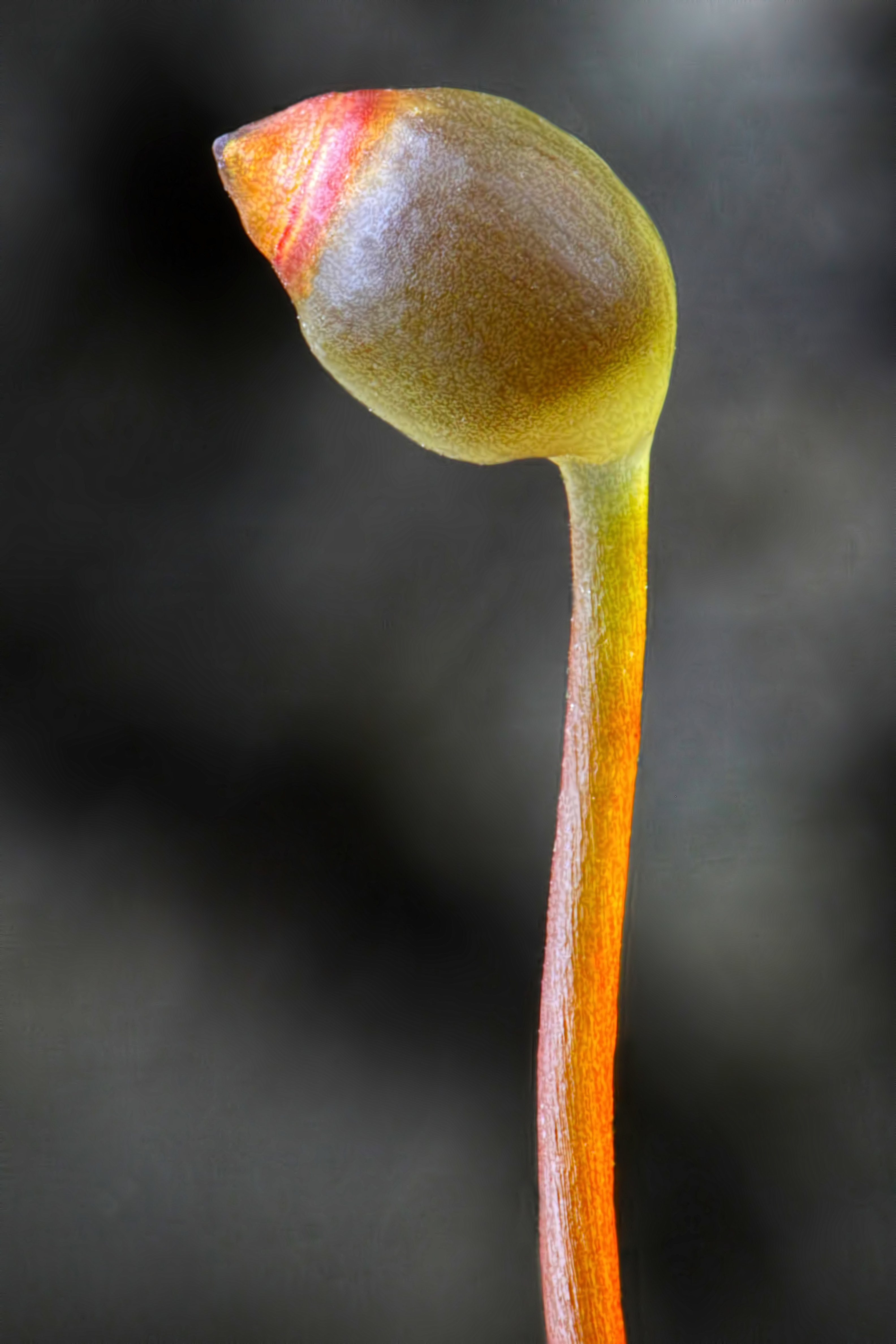 Sporophyte of Discelium nudum